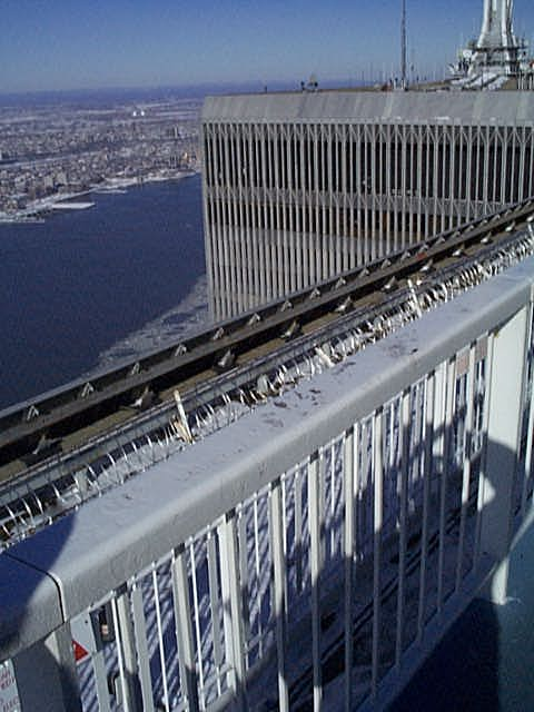 View from exterior observation deck of the World Trade Center, New York City on New Year's Day 2001.World Trade Center January 1 2001